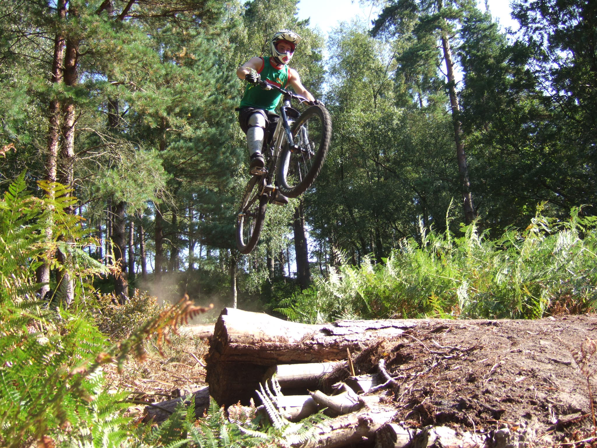 Final Jump at Triple Control freeride competition, Seattle, Washington